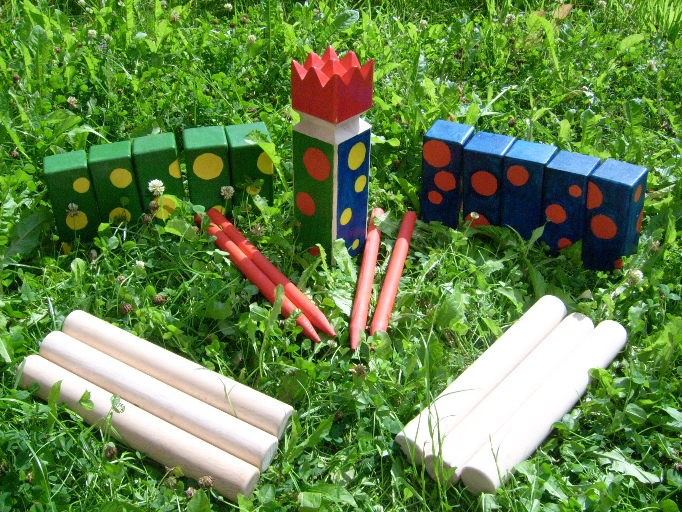 A designed Kubb game.